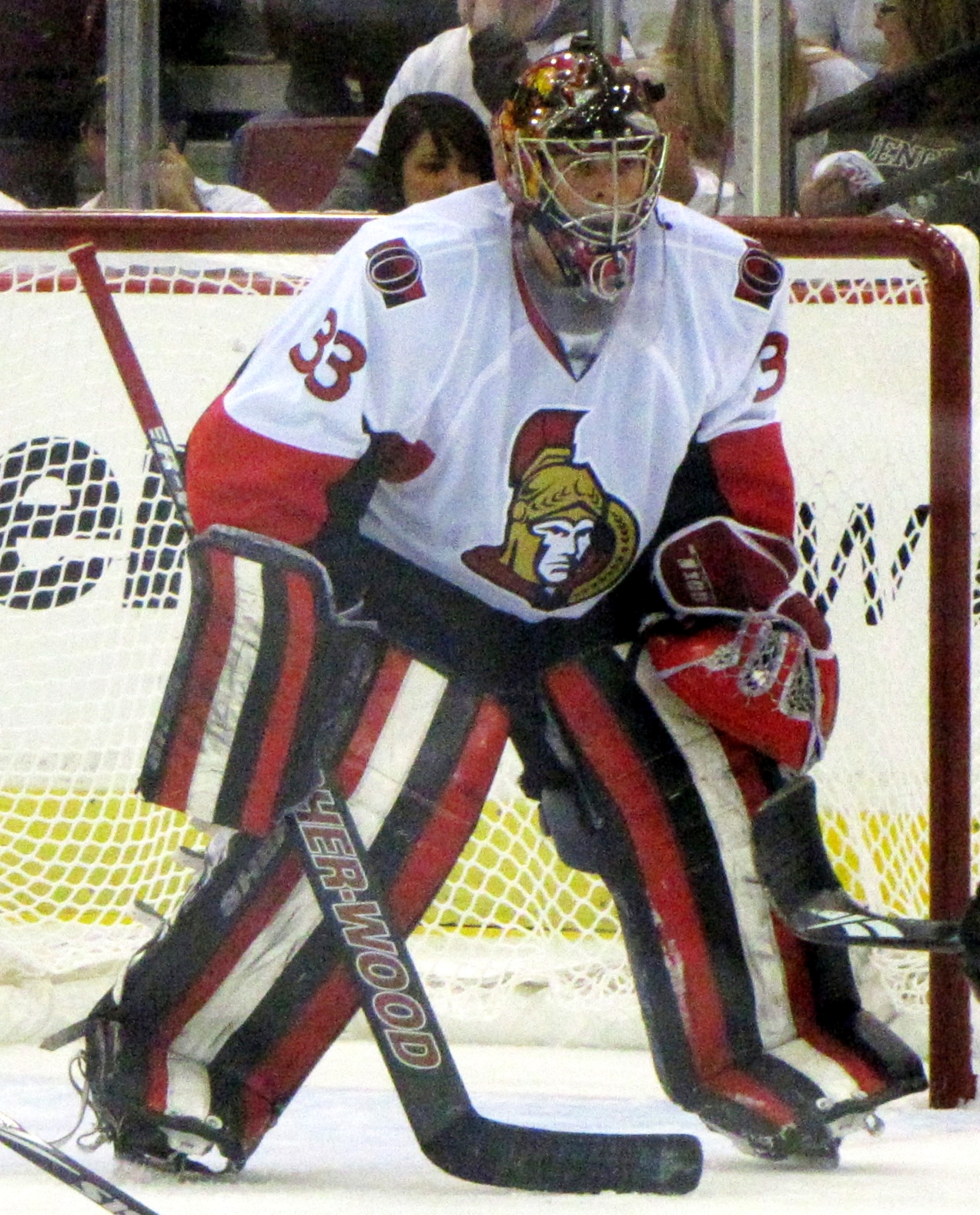 Senators goaltender Pascal Leclaire made 49 saves leading Ottawa to a triple overtime victory over the Pittsburgh Penguins in Game 5 of their first round playoff matchup, April 22, 2010 at Mellon Arena in Pittsburgh, PA.